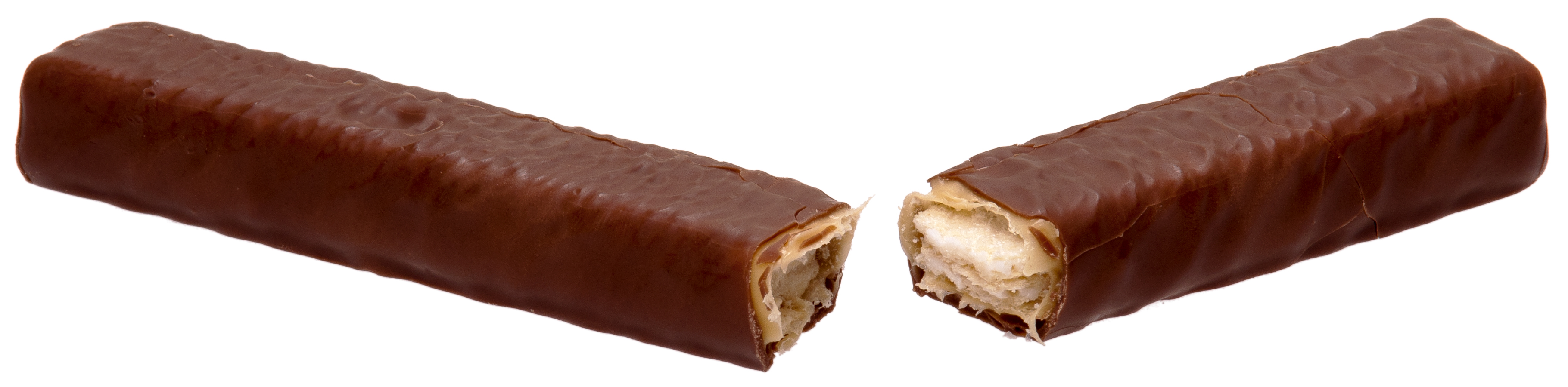 An Australian Chomp candy bar that has been split in half.